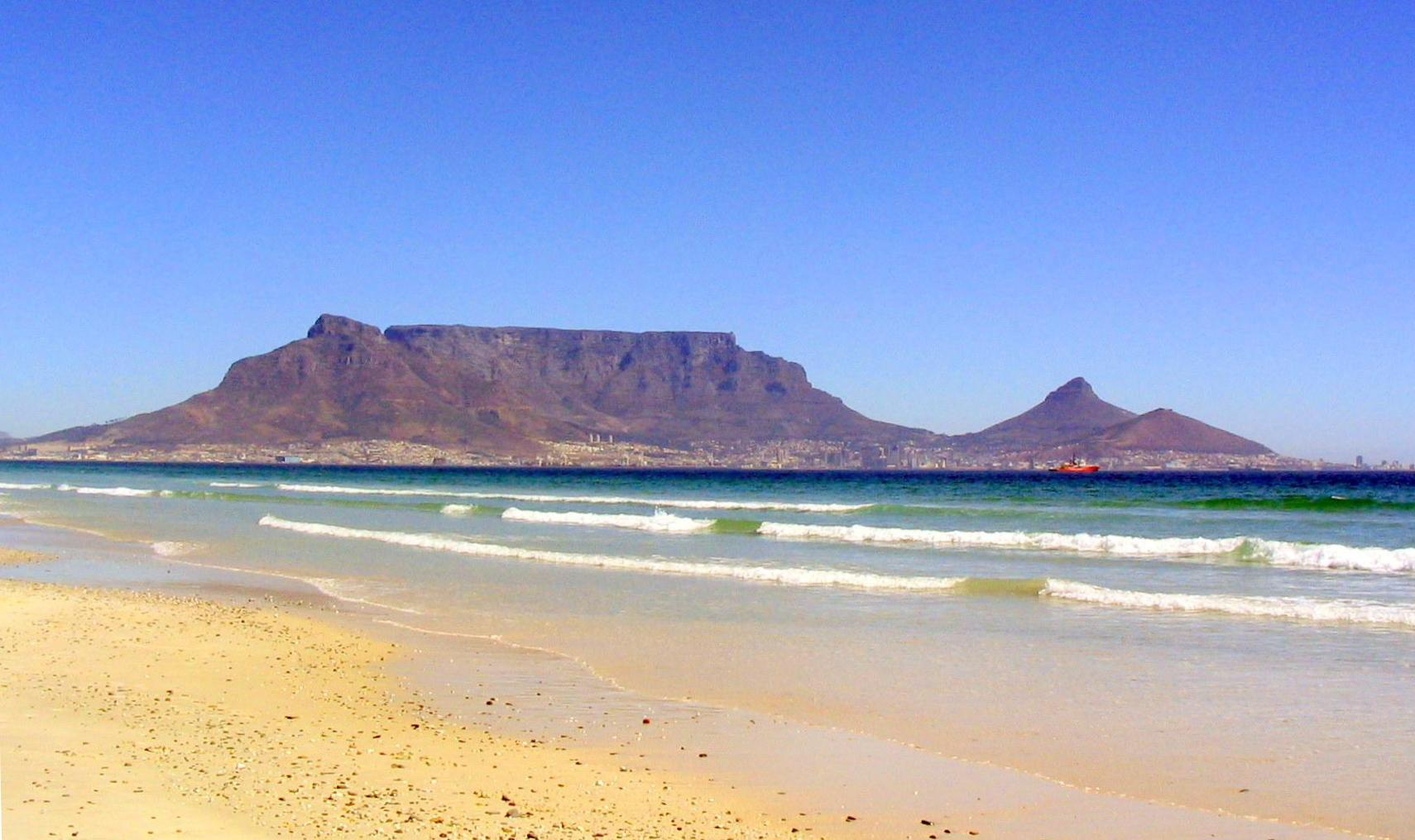 The Table Mountain and Ocean in Cape Town.